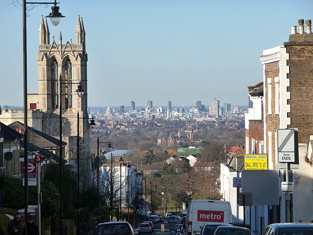 View down Gipsy Hill One of the highest points in London so excellent vistas can be glimpsed between almost any two buildings or at any corner you turn in this area. The tower on the left used to belong to Christ Church (1867, by John Giles), but is now a private residence after the remainder of the original church was destroyed by fire in 1982 (since rebuilt). Grade II listed. The prominent buildings in the middle-distance, above the green building, are those of Dulwich College. In the background a number of prominent buildings in the City are visible. To the left of the church is the dome of St Paul's Cathedral. To its right can be seen the three Barbican towers - Cromwell, Shakespeare, and Lauderdale (1965-76, Chamberlin, Powell and Bon). To the right the distinctive concrete tower is that of Guy's Hospital, the tallest hospital building in the world (1974, Watkins Gray).